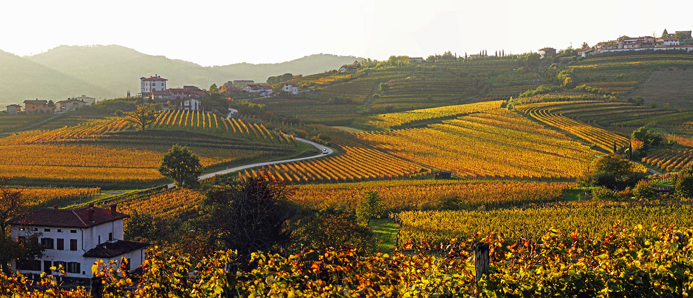 Autumn in Goriska brda (Gorizia Hills).